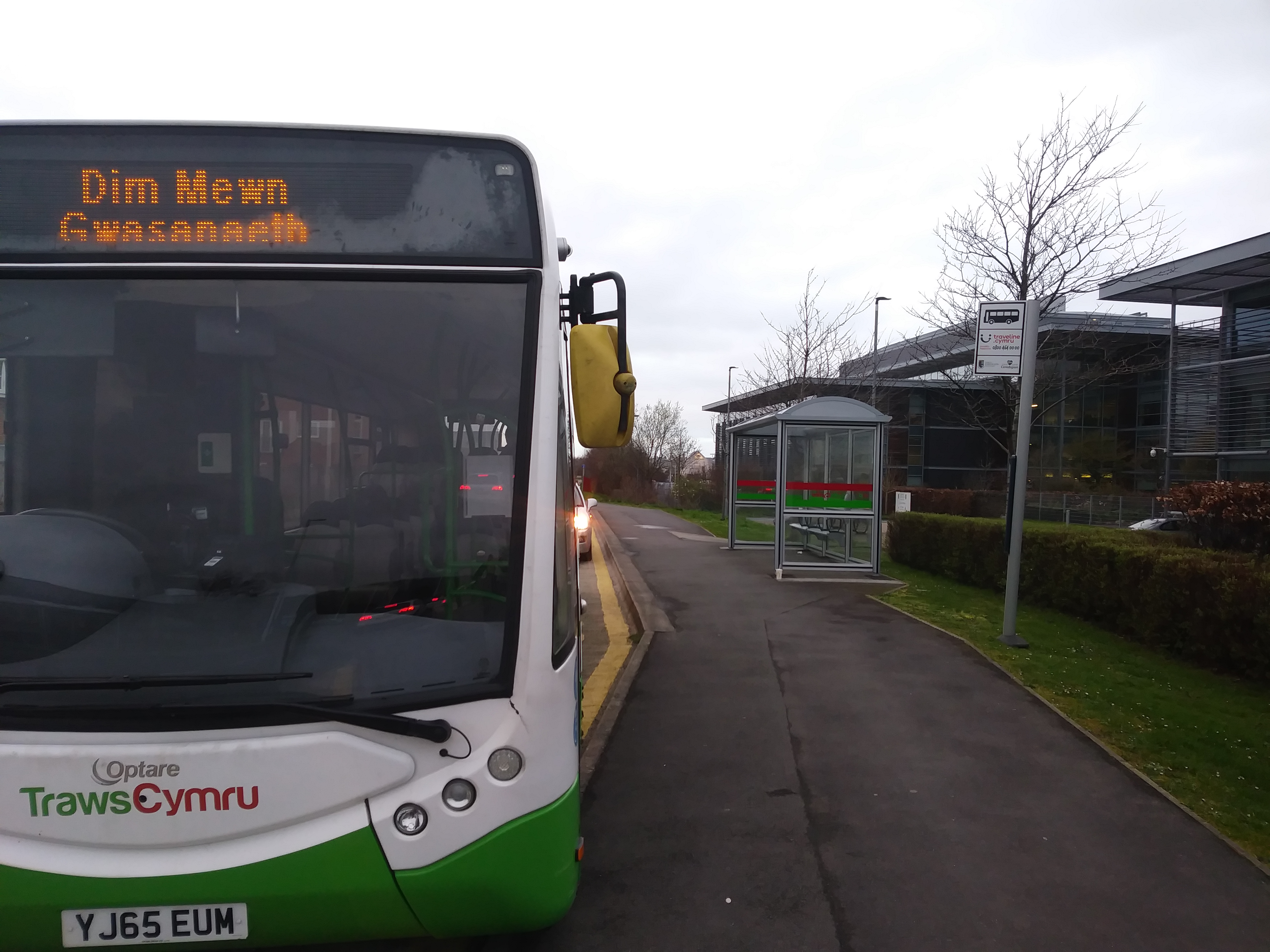 Traws Cymru service bus 'Dim Mewn Gwasanaeth' ("Not in Service") at Welsh Govt offices bus stop, Aberystwyth, 2019